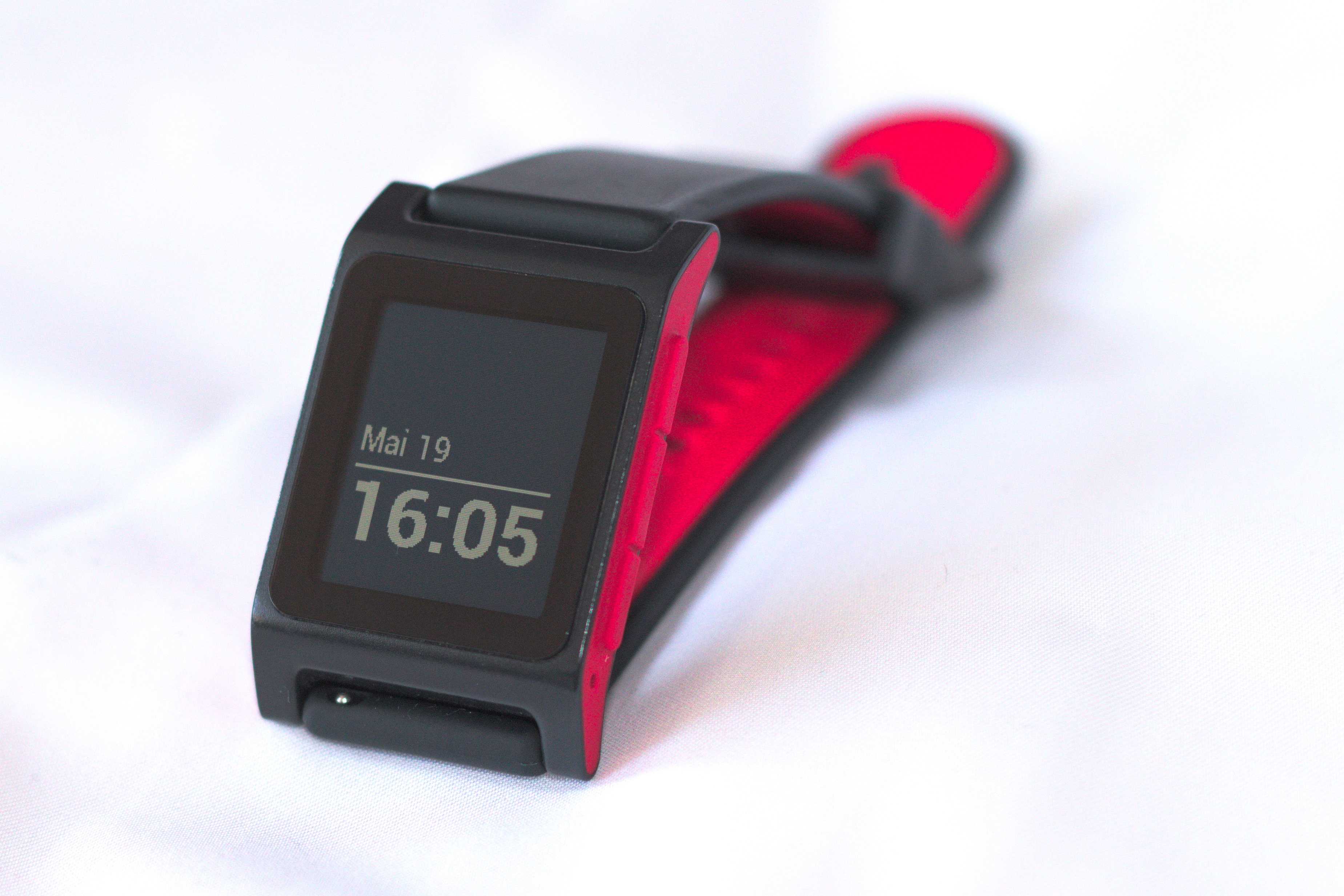 Pebble 2 HR, color: Charcoal Flame